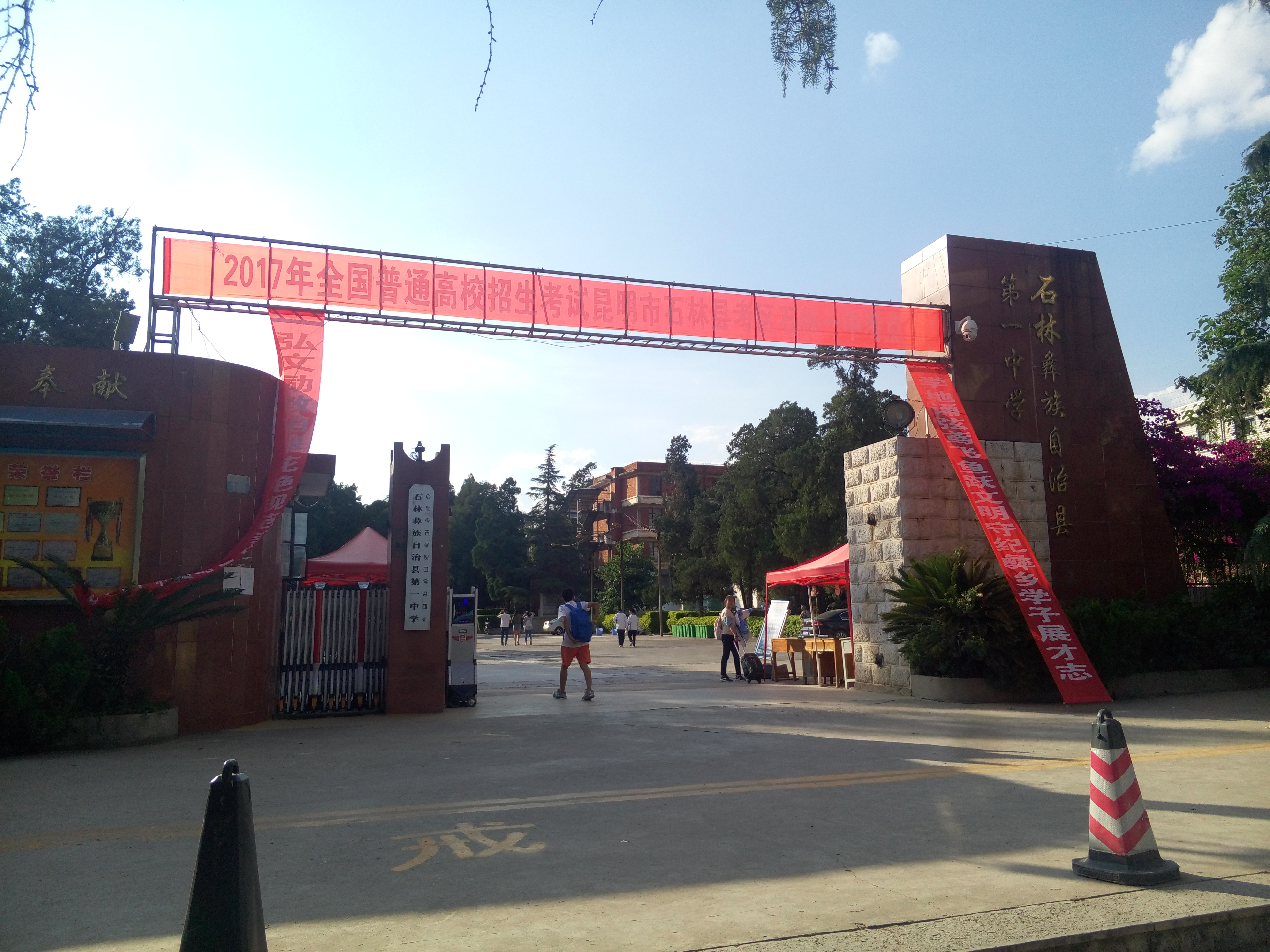 Gate of Shilin Yi Autonomous County No.1 High School